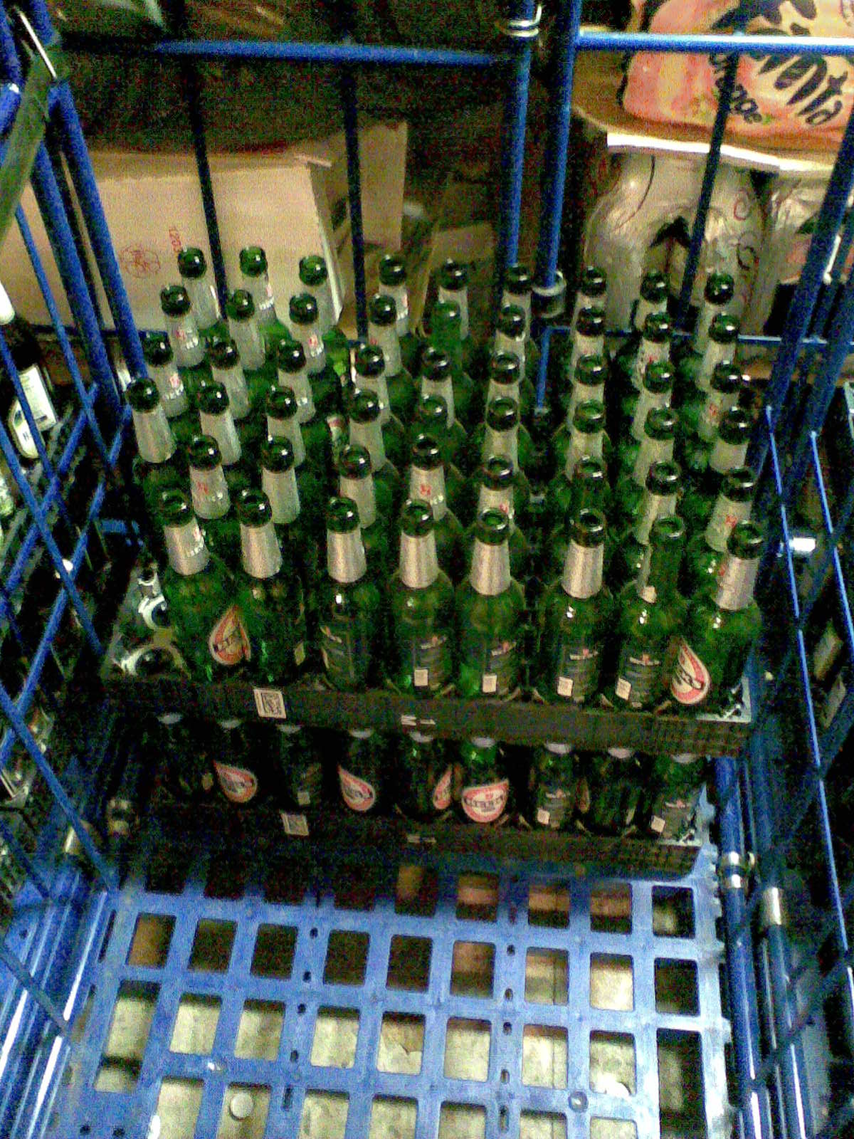 A picture I have made at my work- place. You can see some beer- bottles on a tray.